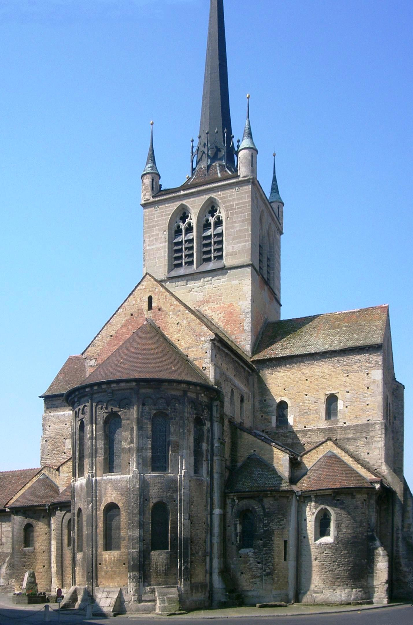 Church of former Benedictine abbey from east.